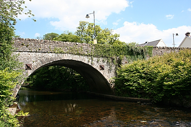 Plumbridge The bridge carries the B48 over the Glenelly River in the middle of Plumbridge.